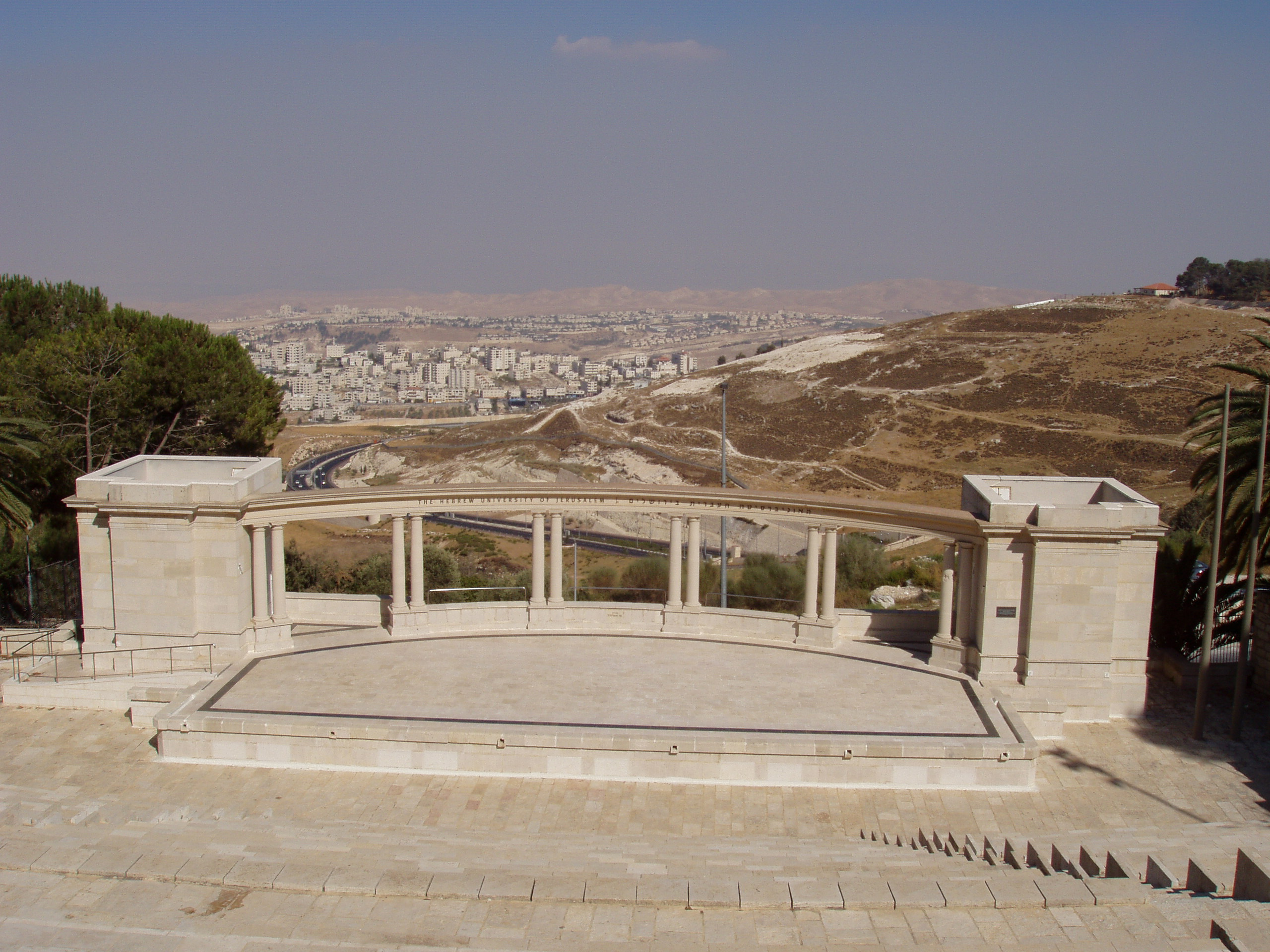 Rothberg amphiteatre, Mount Scopus campus of Hebrew University, Jerusalem